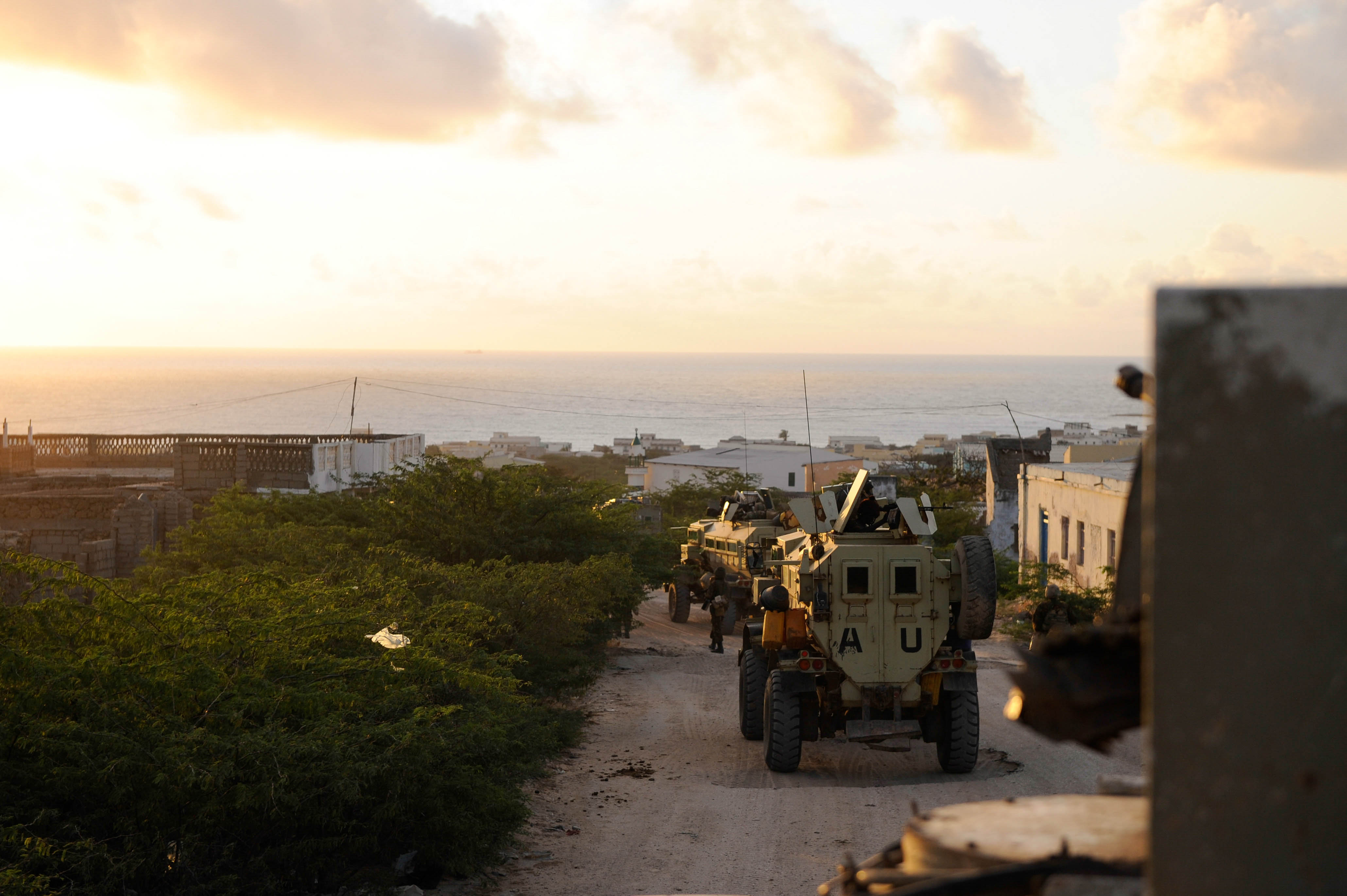 African Union forces enter the Al Shabab held town of Barawe, Somalia, during the second phase of Operation Indian Ocean on October 6. The town was liberated soon afterwards, with only minimal resistance from the extremist group Al Shabab. AMISOM Photo / Tobin Jones